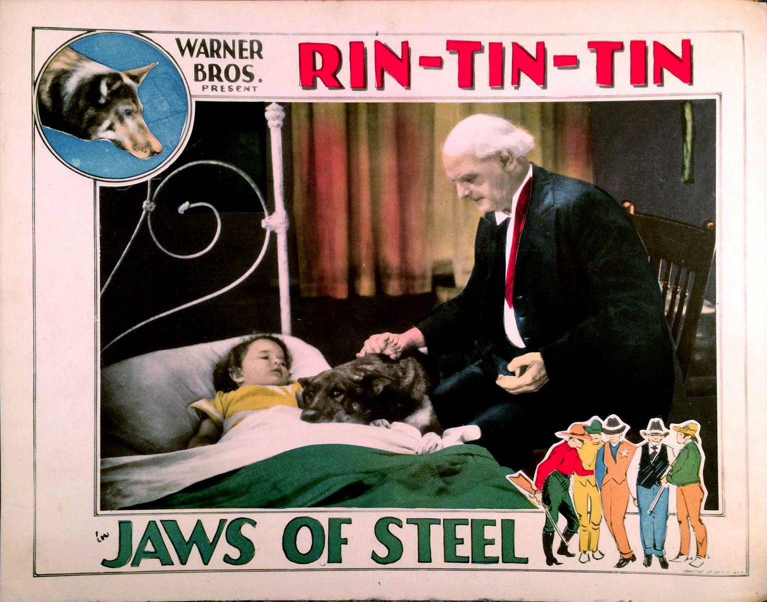 Lobby card for the American family adventure film Jaws of Steel (1927). There are no copyright marks on the card. At bottom right is Country of origin USA.